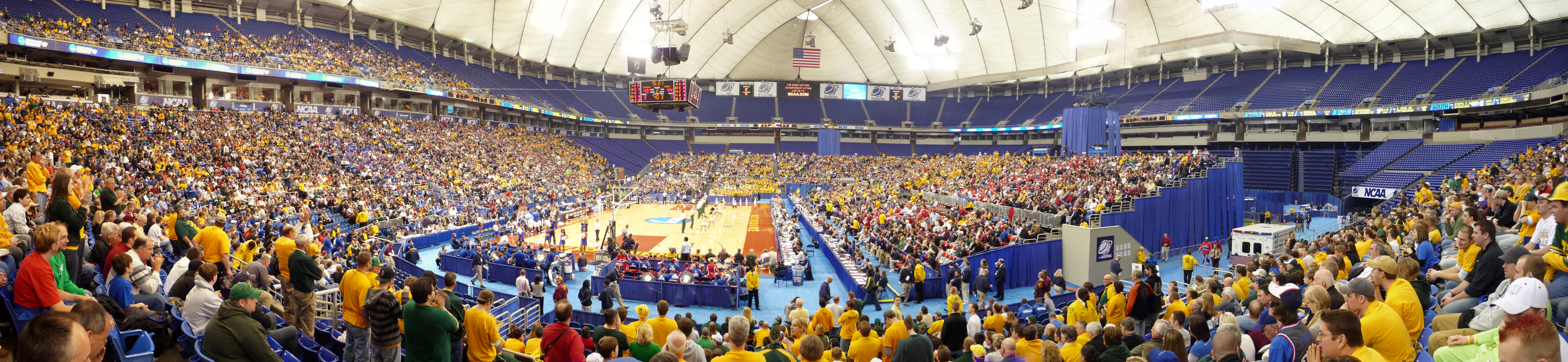 North Dakota State Bison men's basketball becomes the first program in over 30 years to qualify for the NCAA Men's Division I Basketball Tournament in its first year of eligibility, drawing a 14-seed and starting the tournament against defending national champion, the 3-seed Kansas Jayhawks. The Bison put on a valiant effort, keeping the game close into the 2nd half, but eventually lost 84-74. The game was played at the Metrodome in Minneapolis, Minnesota, 2009 NCAA Tournament. The stadium normally hosts American football, baseball and occasionally soccer. Over 10,000 fans of the 15,000+ in attendence were Bison fans, as the Minneapolis area is home to many Bison alumni and is a 4 hour drive from Fargo, North Dakota.